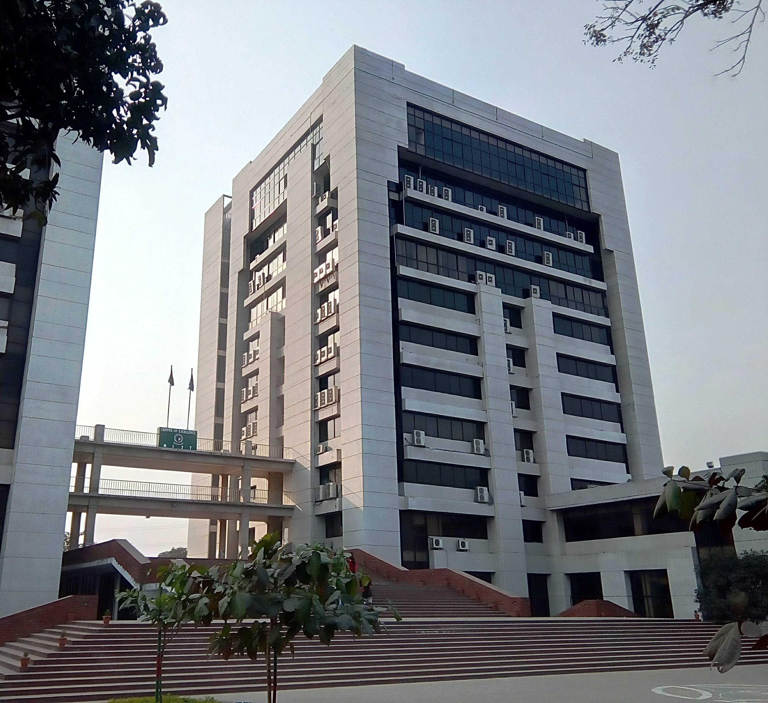 Academic Tower Two Side View